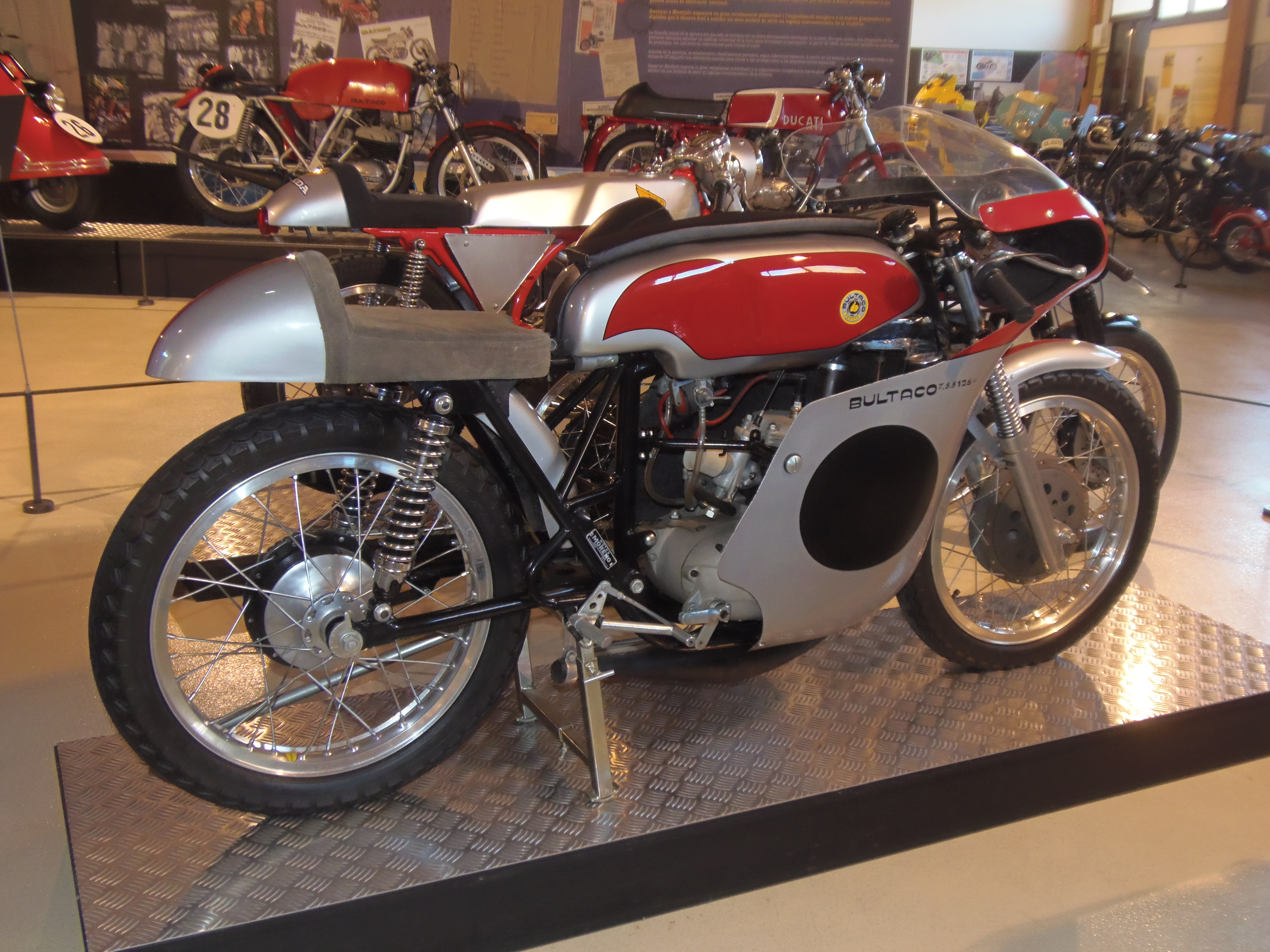 Bultaco TSS 125 Liquid Cooled (1965)